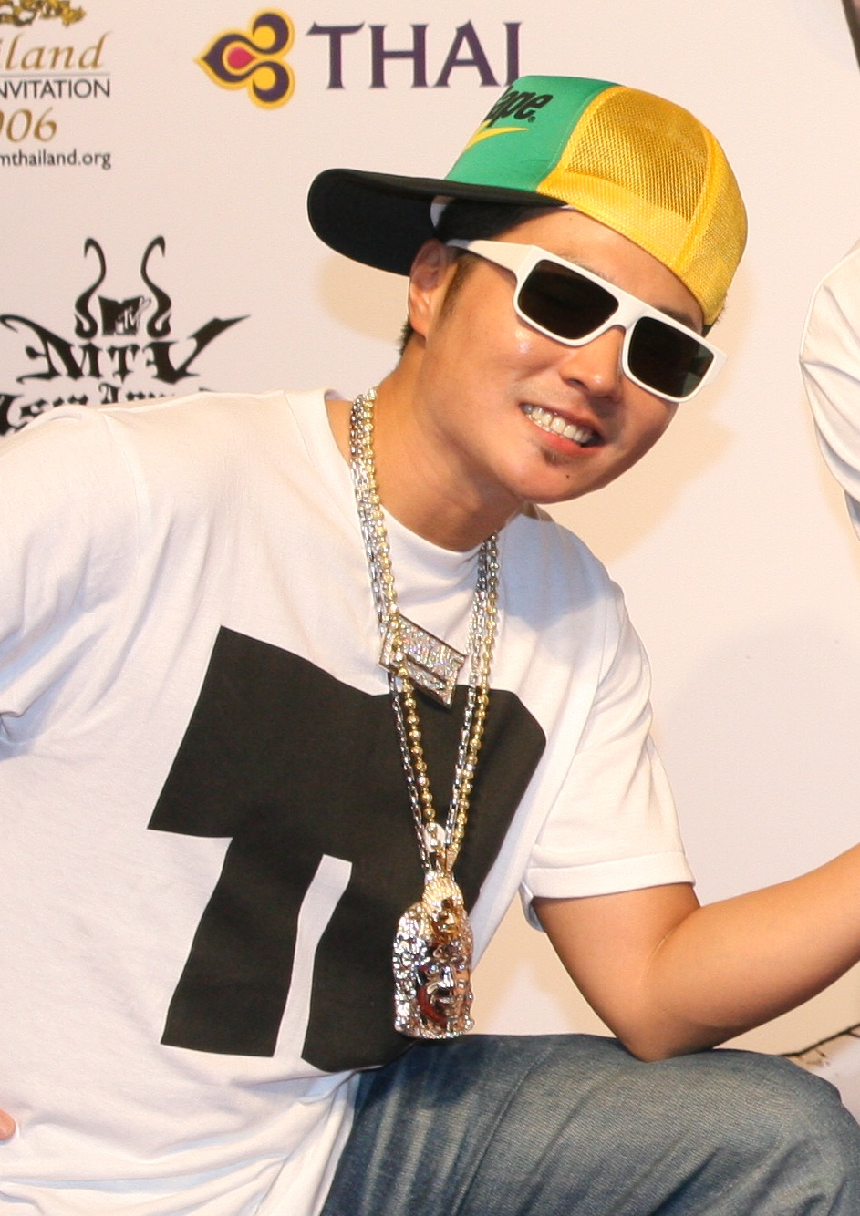 VERBAL (Teriyaki Boyz) (Hip Hop band from japan) at Bangkok, Thailand in 2006